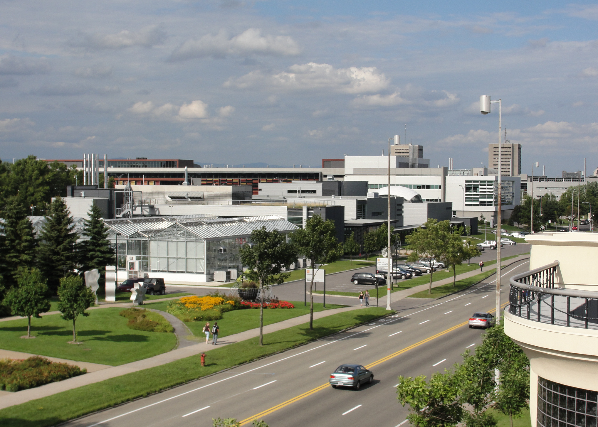 College Campus